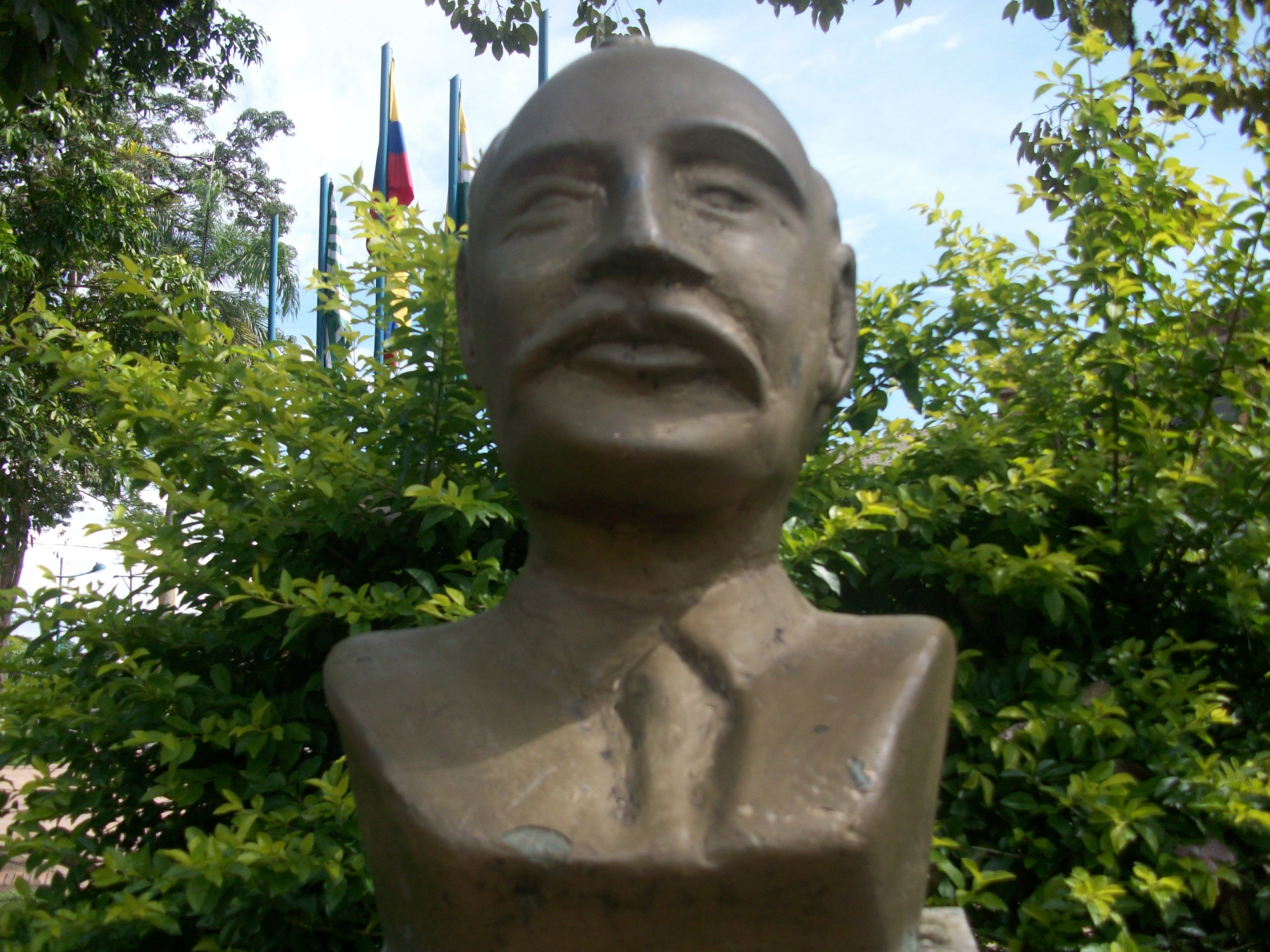 Torso Parque Municipal Acacías- Meta